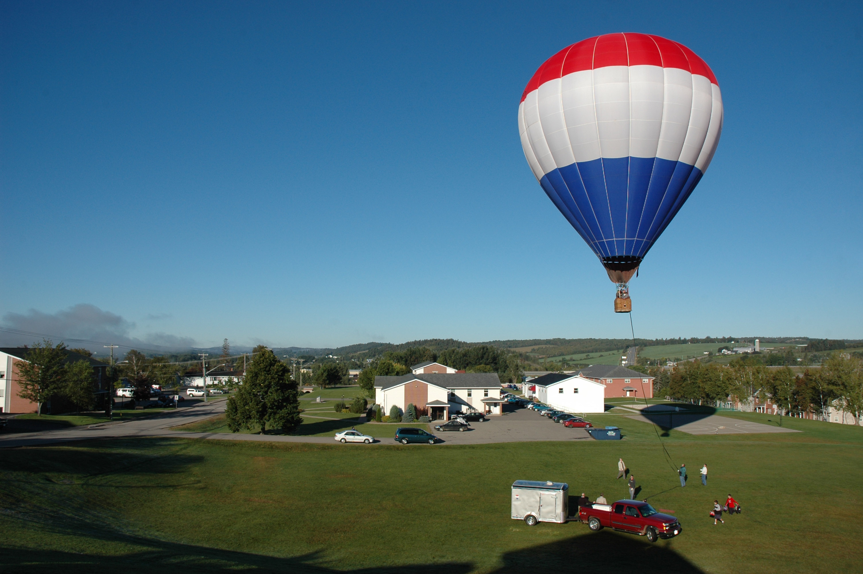 Kingswood University Upper Campus